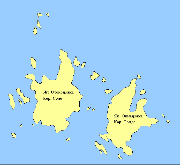 Map of Liancourt Rocks (Takeshima, Tokto) with Russian descriptions